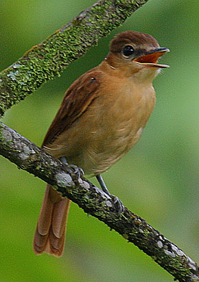 A rather active canopy bird which can be difficult to separate from the Rufous Piha and Rufous Mourner but usually the pale supra-loral stripe helps separate this Becard. Image taken on the lower slopes of the Arenal Volcano, Costa Rica.